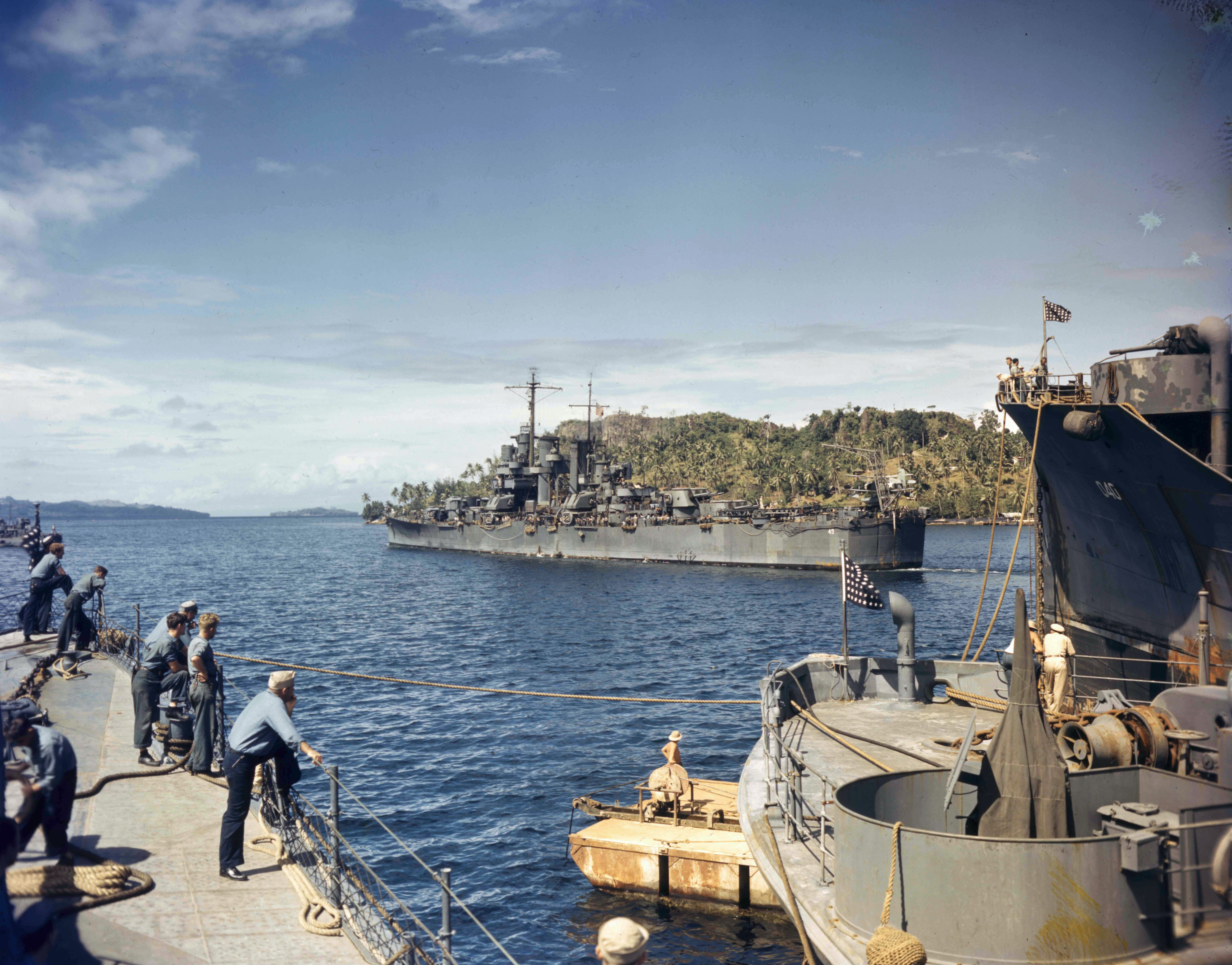 The U.S. Navy light cruiser USS St. Louis (CL-49) at Tulagi, Solomon Islands, circa 1943. The bow of the fleet oiler USS Lackawanna (AO-40) is visible at the extreme right.